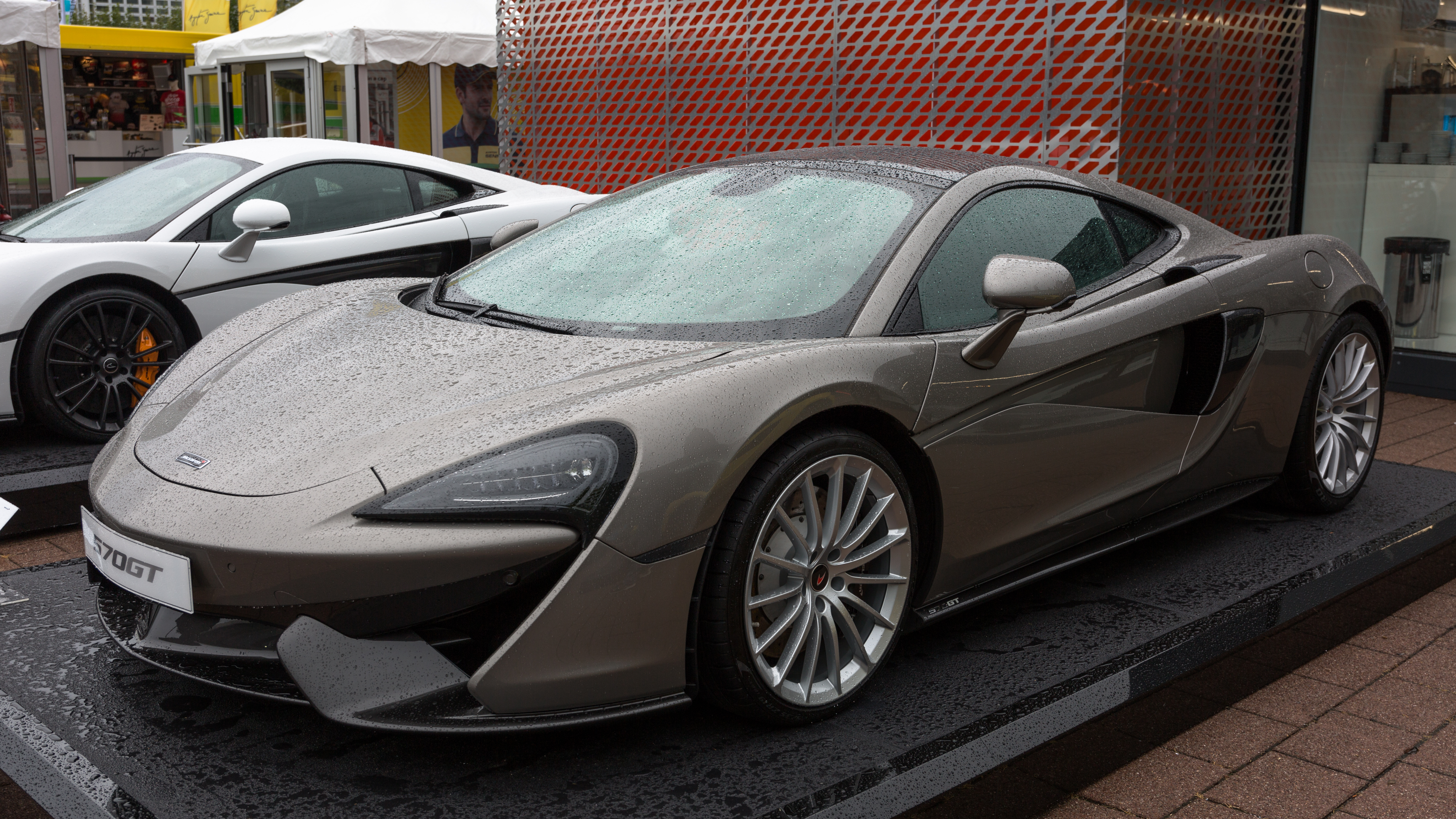 McLaren 570GT, IAA 2017